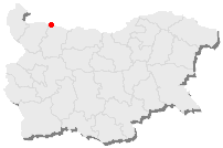 Map of Bulgaria, the red point is the position of Kozloduy.